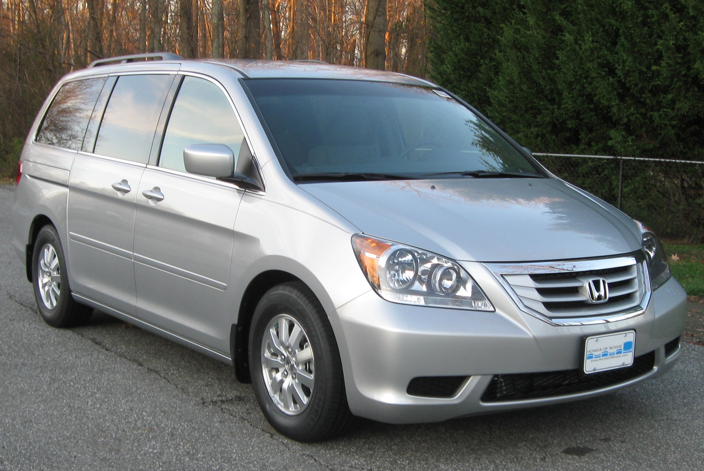 2010 Honda Odyssey photographed in Bowie, Maryland, USA.